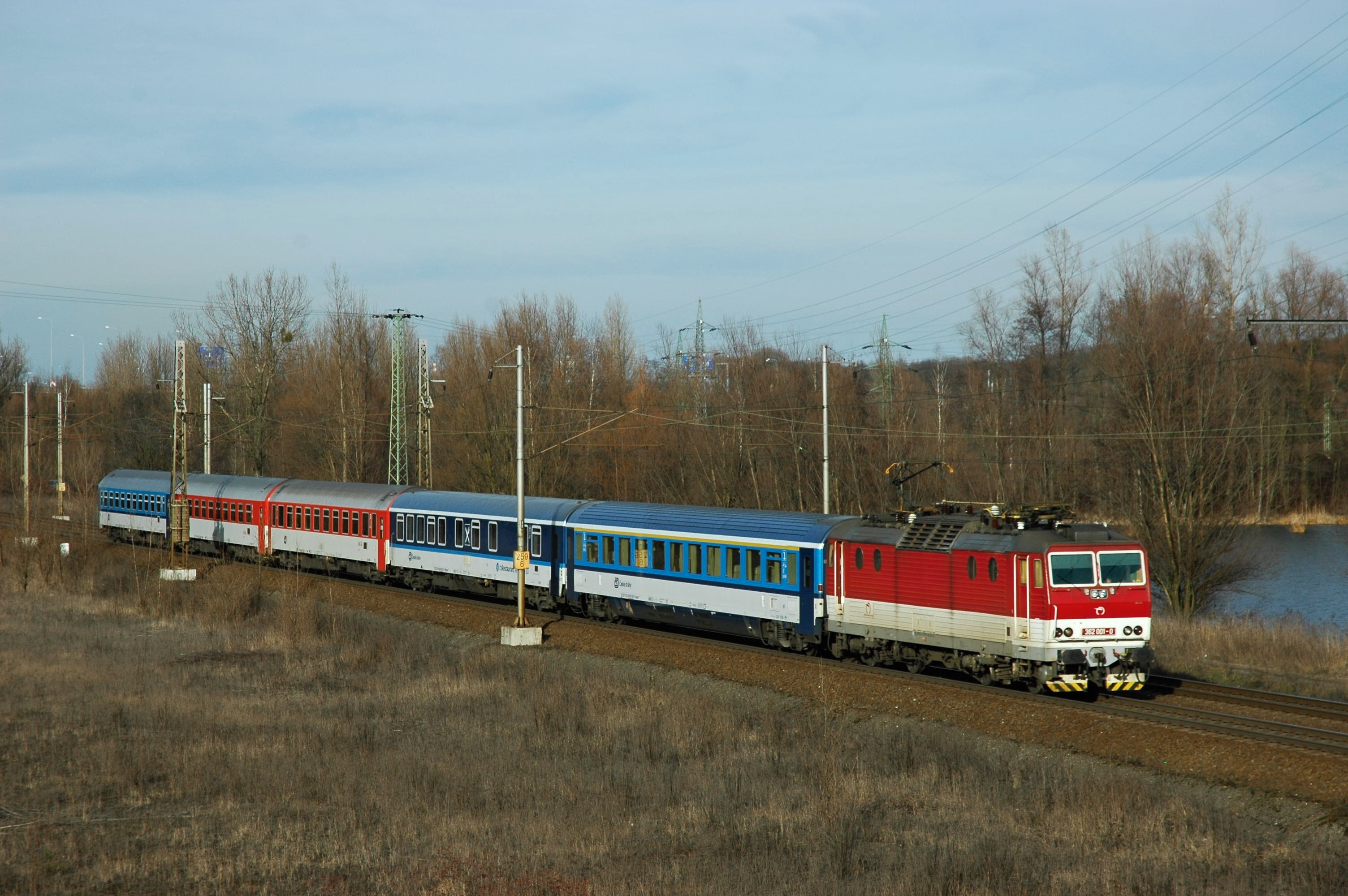 362 001 ZSSK with EuroCity 131 Varsovia from Warsaw to Budapest; between Ostrava-Svinov and Polanka nad Odrou výhybna, Czech Republic